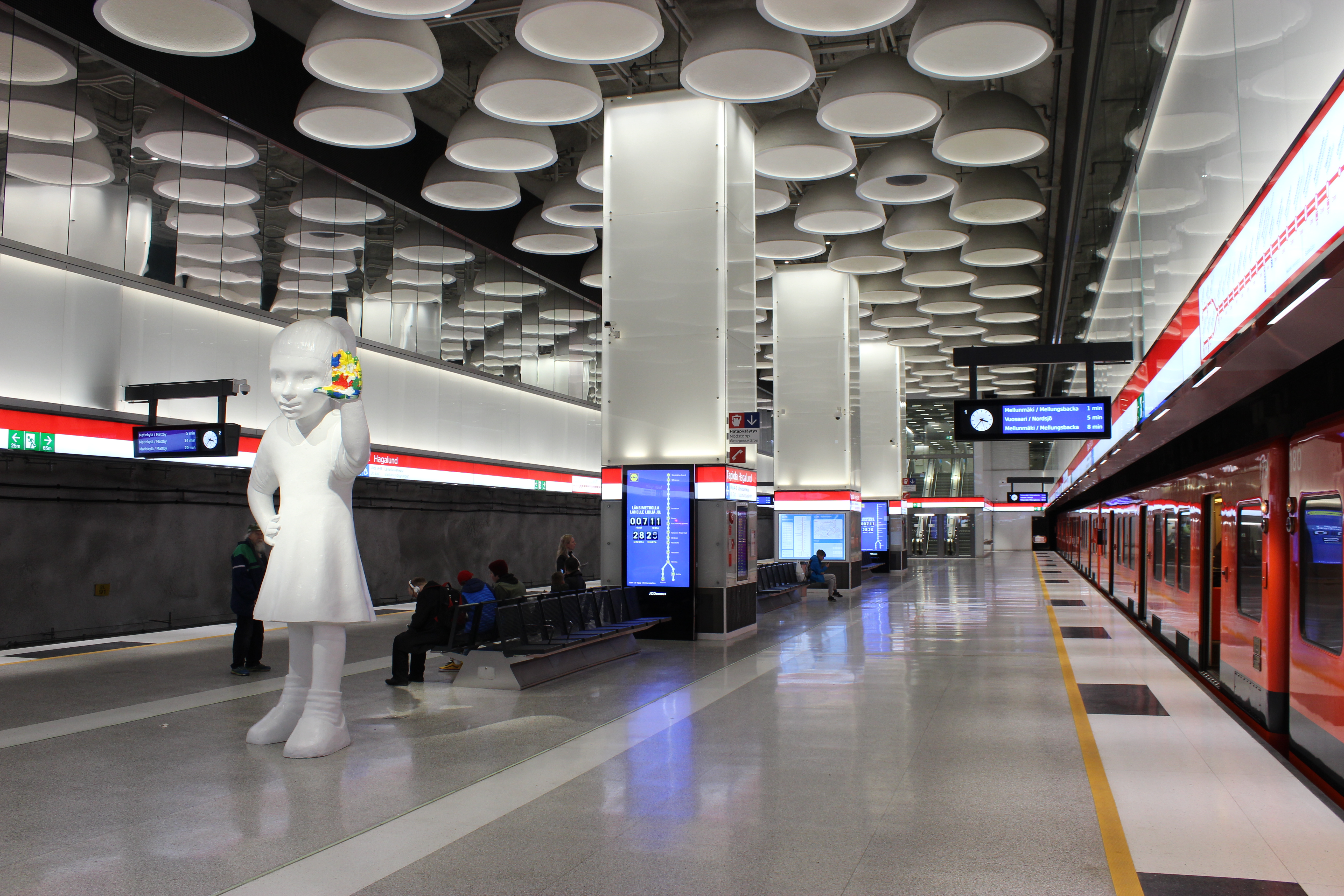 Tapiola metro station in November 2017. In the foreground is the Emma jättää jäljen sculpture by Finnish artist Kim Simonsson.